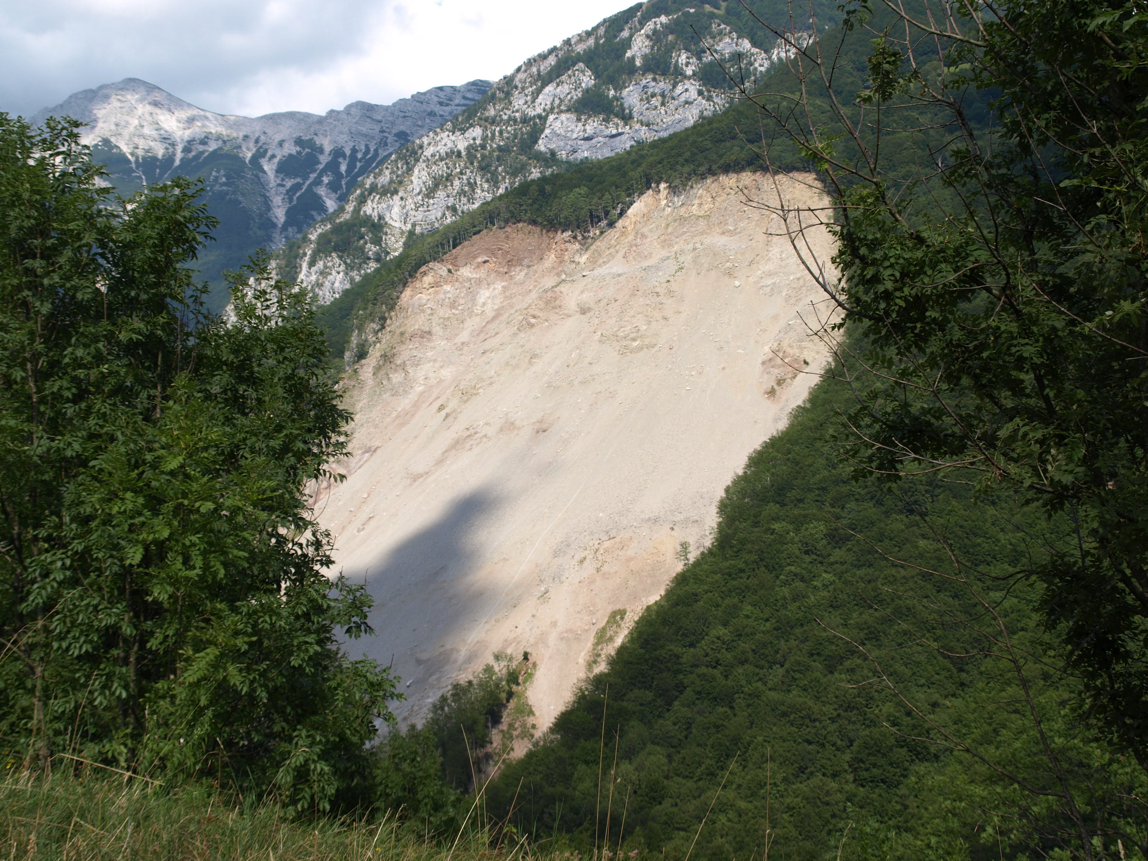 Look for the natural hart... :-)